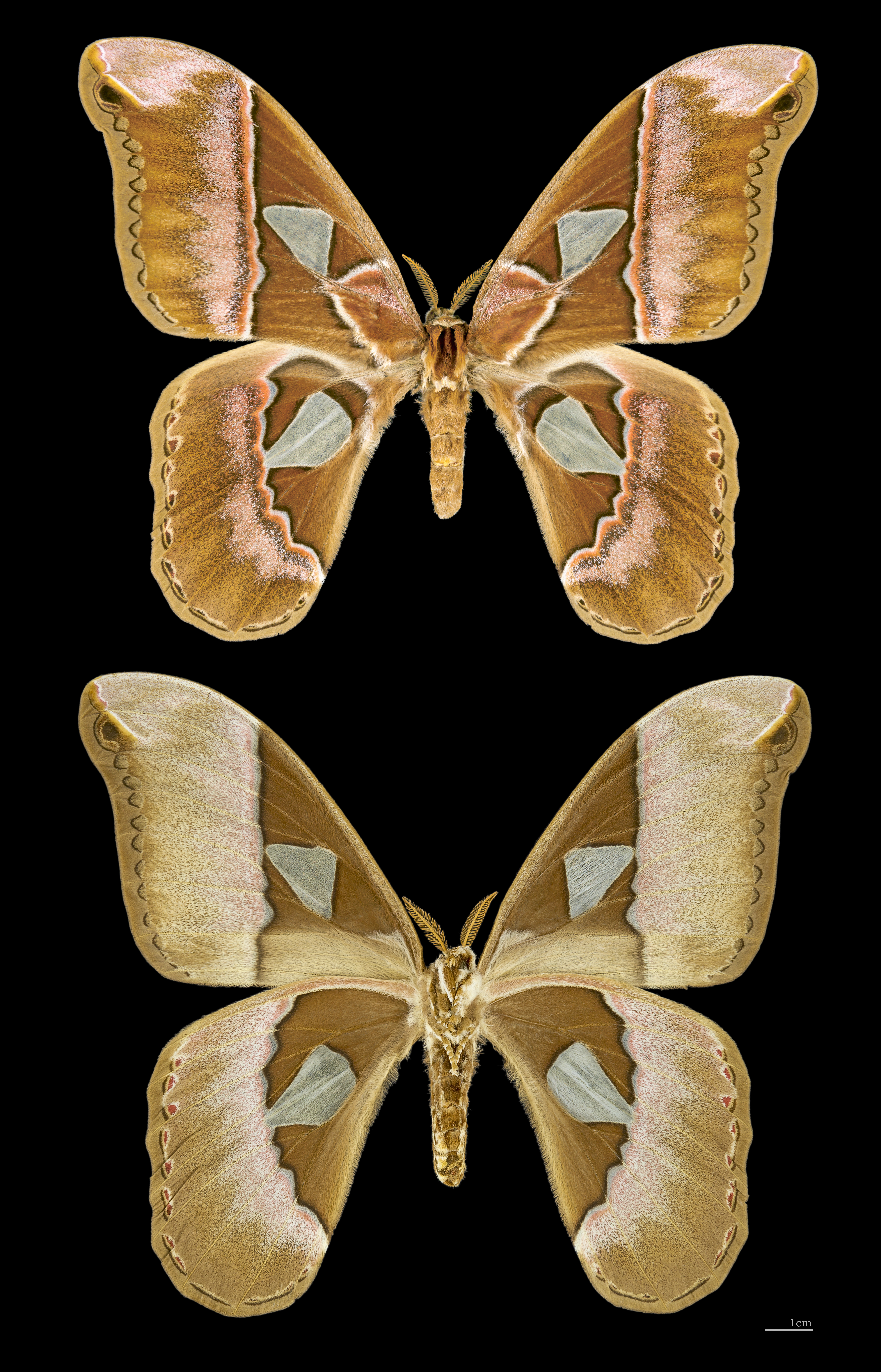 Rothschildia aurota speculifera - Two views of same specimen